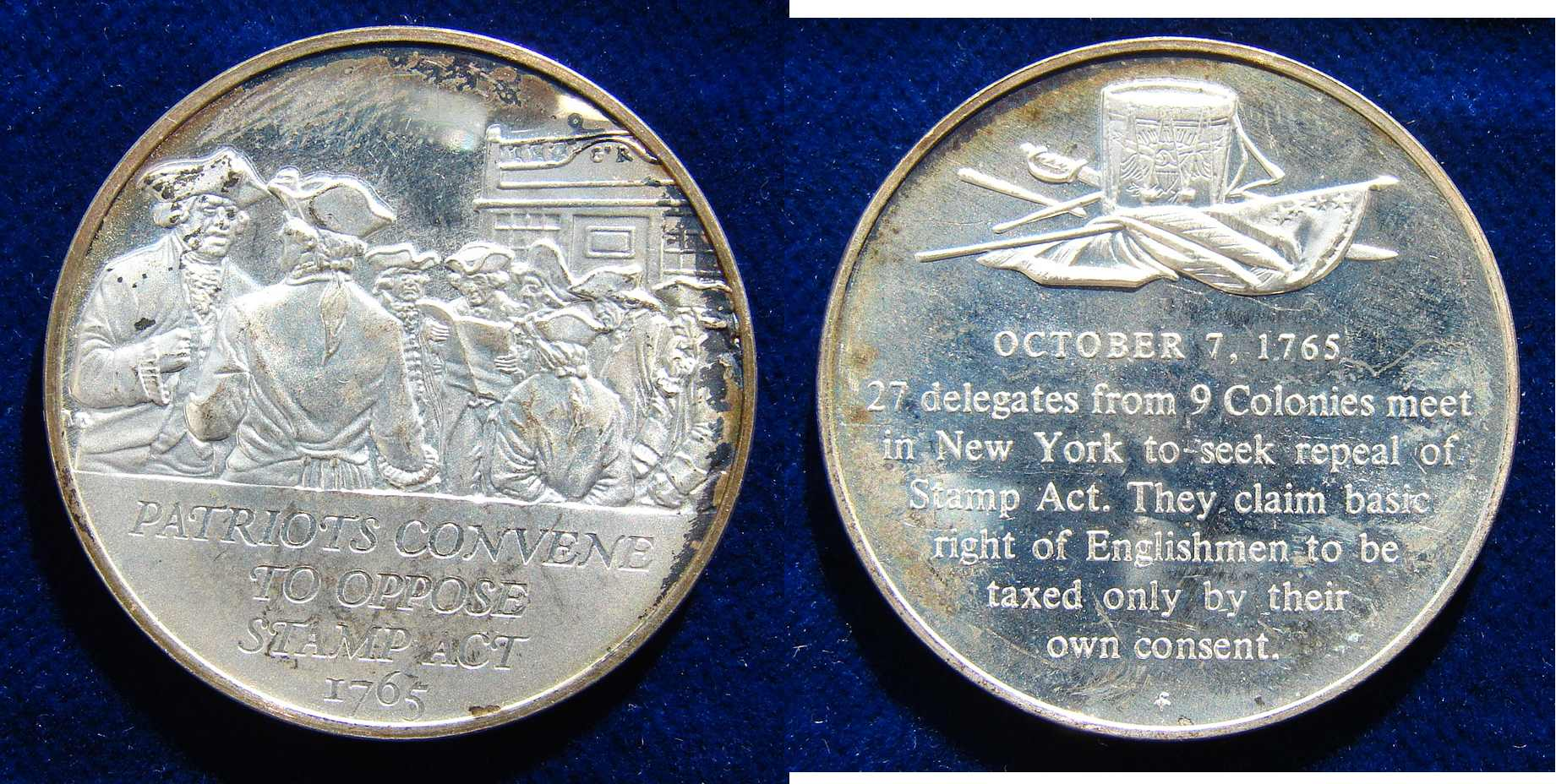 14.46 g Sterling Silver. D = 32 mm Stamp Act 1765 Protesting colonists, 4 lines below in exergue: "PATRIOTS CONVENE TO OPPOSE STAMP ACT 1765"/ 7 lines below military symbols: "OCTOBER 7, 1765 27 delegates from 9 colonies meet in New York to seek repeal of Stamp Act. They claim basic right of Englishmen to be taxed only by their own consent." Medallist: AG, Franklin Mint edition 1970. Condition: Lightly toned EXTREMELY FINE.